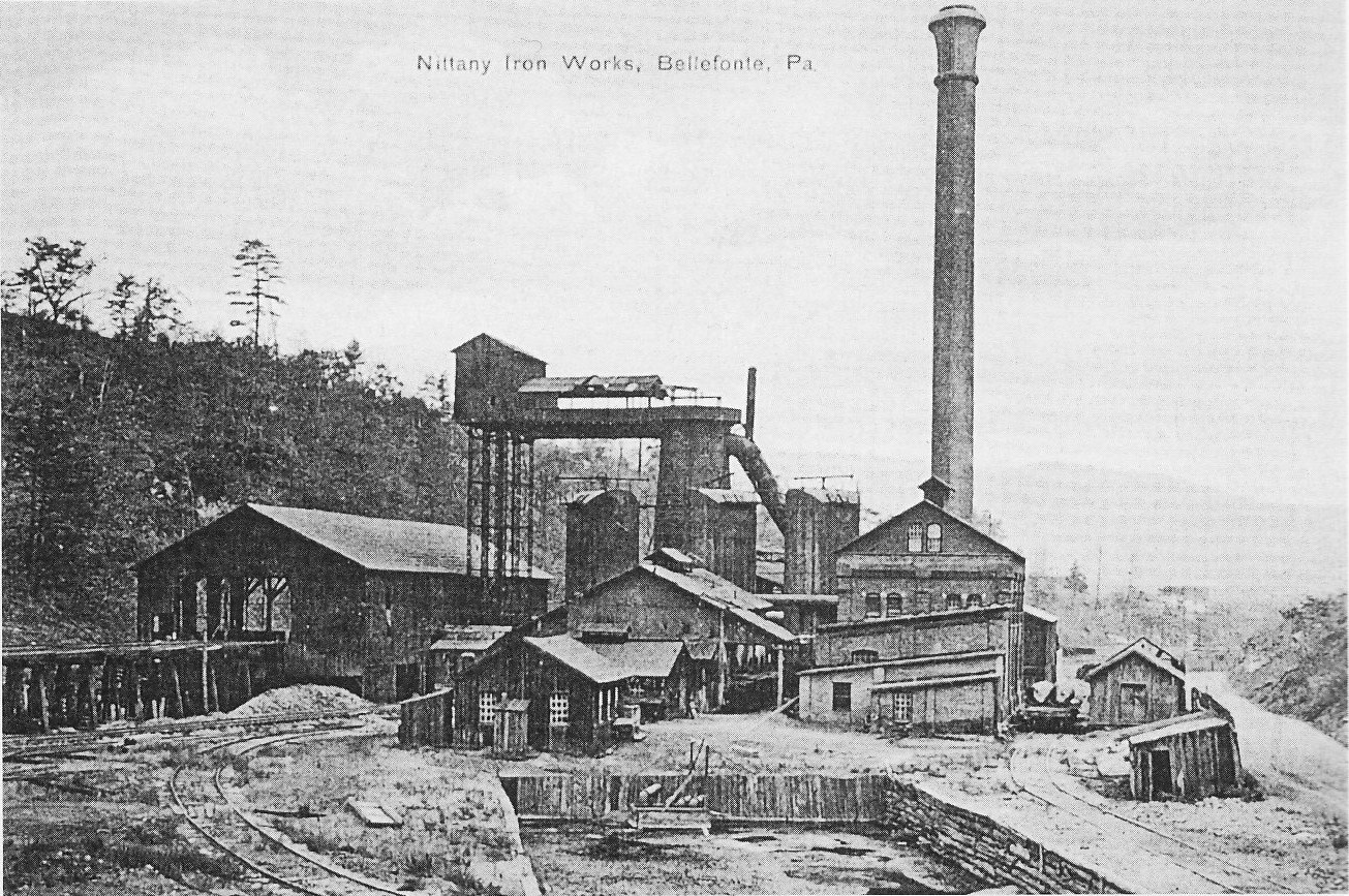 Picture of Nittany or Valentine Furnace (labeled Nittany Iron Works) in Spring Township, Centre County, Pennsylvania, US. View is to the northwest. As identified from contemporary Sanborn Fire Insurance maps, the building on the left is the stock house, connected by a hoist to the furnace. In front of the furnace are three stoves. A boiler house sits in front of the stoves, and the brick engine house is to its right, in front of the tall smokestack. A small part of the cast house roof is visible behind furnace and stoves.